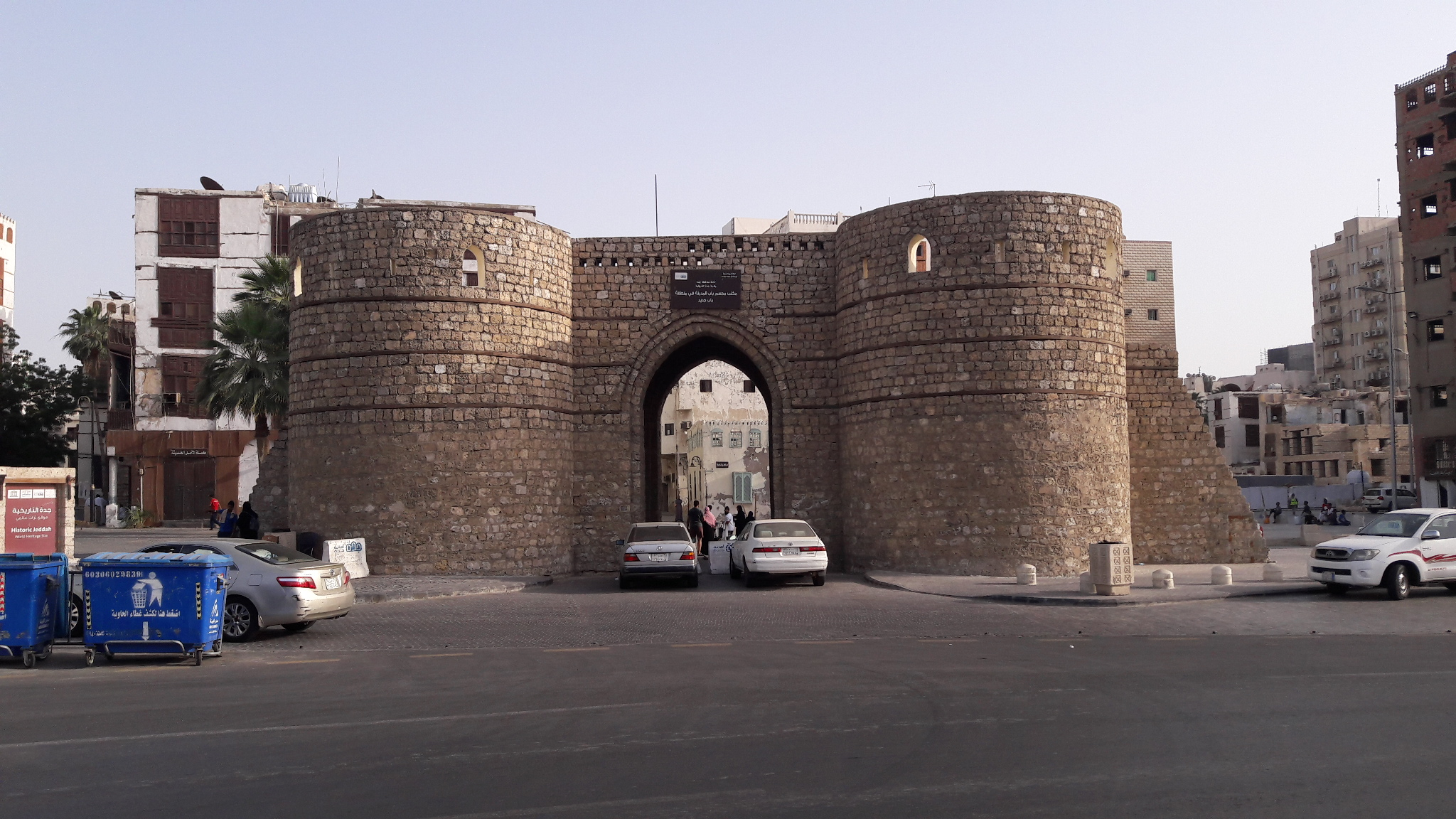 Bab Jadid, Old Jeddah